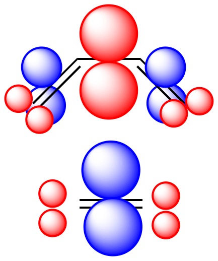 Conceptual DFT picture with dual descriptor function coloring (red=positive, blue=negative) of the Diels-Alder supra/supra transition state.